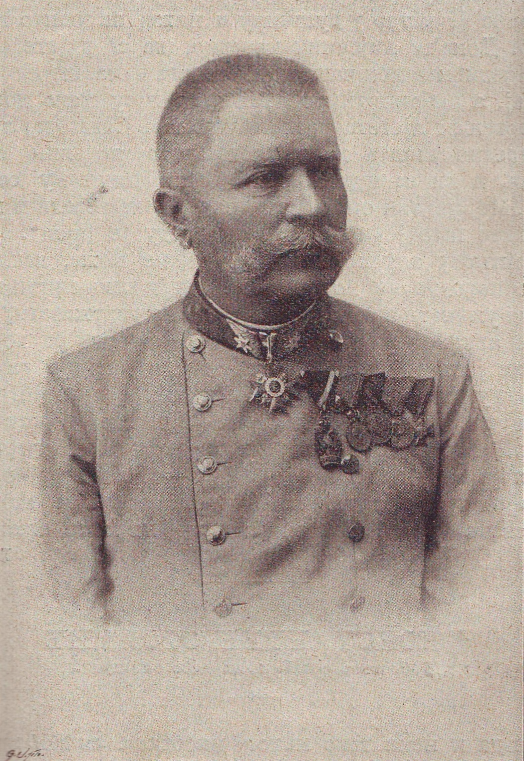 A photograph of Marko Knežević (1838-1909), Major General of the Austro-Hungarian Army. Srpski (latinica): Fotografija Marka Kneževića (1838-1909), general-majora austrougarske vojske.